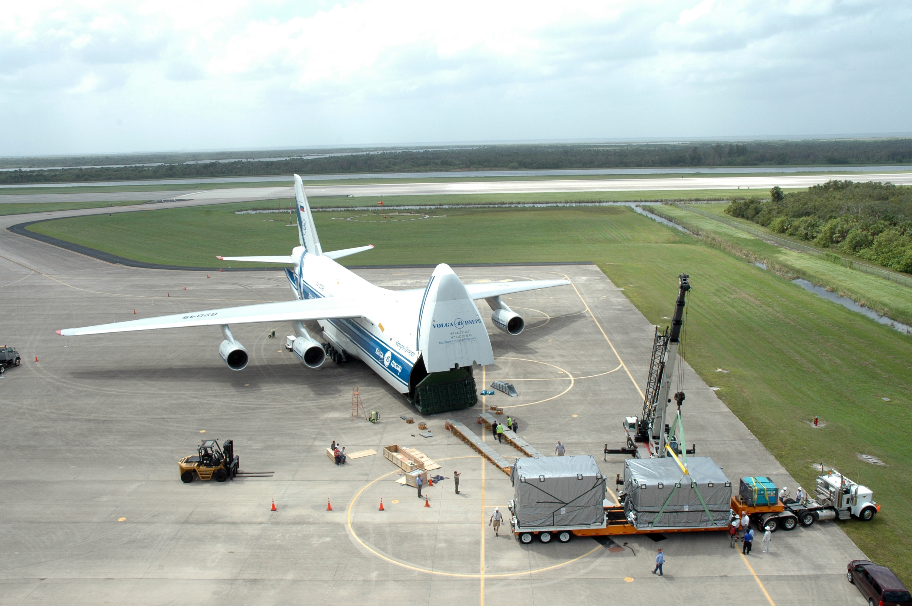 An Antonov An-124 transport aircraft unloads Kibo at Kennedy Space Center. On the Shuttle Landing Facility at NASA's Kennedy Space Center in Florida, a flatbed trailer holds two components of the Japan Aerospace Exploration Agency's Kibo laboratory that will be added to the International Space Station. The components will be transported to the Space Station Processing Facility. The components are the Kibo Exposed Facility, or EF, and the Experiment Logistics Module Exposed Section, or ELM-ES. The EF provides a multipurpose platform where science experiments can be deployed and operated in the exposed environment. The payloads attached to the EF can be exchanged or retrieved by Kibo's robotic arm, the JEM Remote Manipulator System. The ELM-ES will be attached to the end of the EF to provide payload storage space and can carry up to three payloads at launch. In addition, the ELM-ES provides a logistics function where it can be detached from the EF and returned to the ground aboard the space shuttle. The two JEM components will be carried aboard space shuttle Endeavour on the STS-127 mission targeted for launch in May 2009.